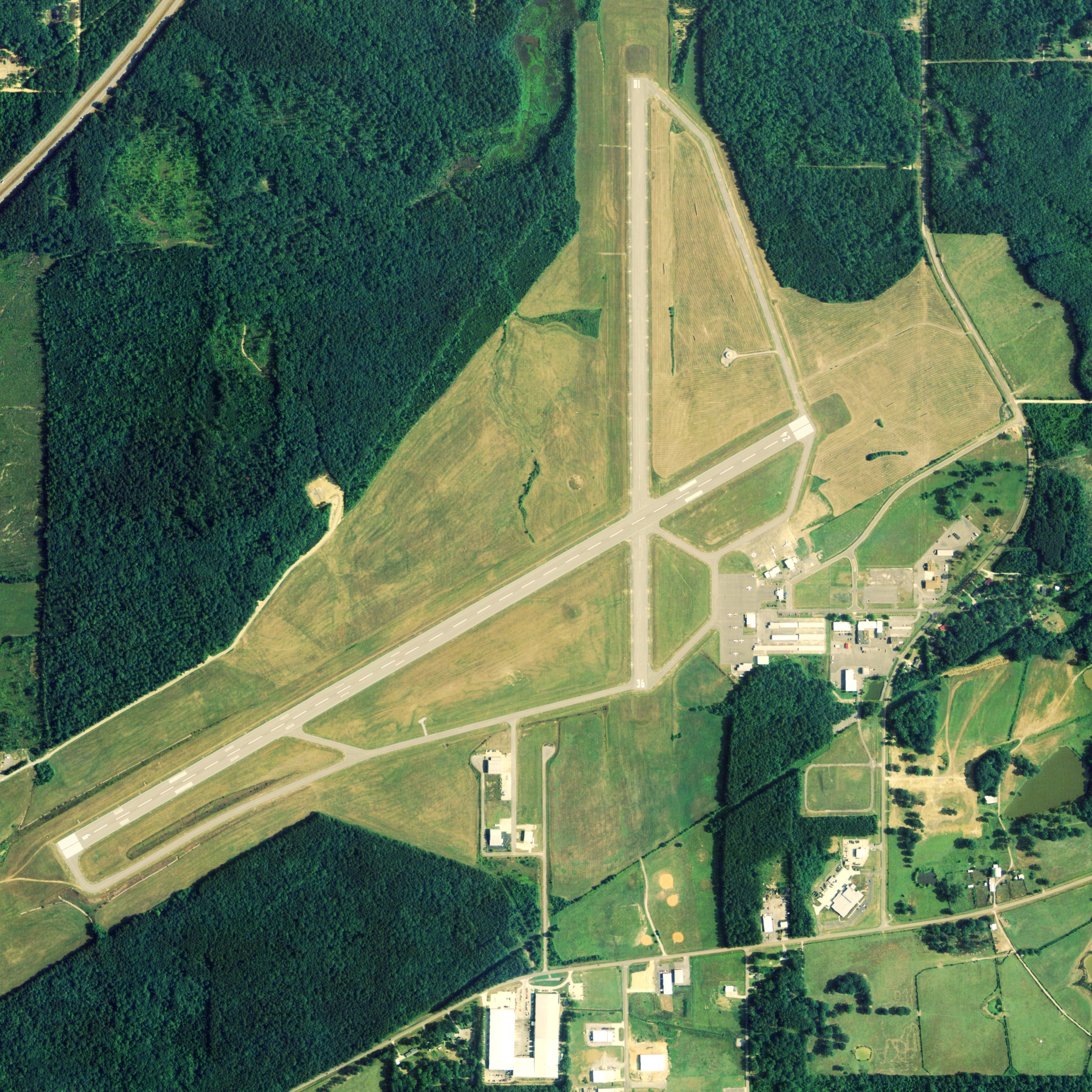 Aerial image of Northeast Alabama Regional Airport in Gadsden, Alabama, United States